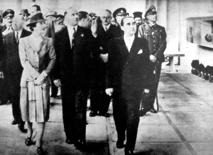 Scene from World War II Bucharest: Romanian officials and Nazi German diplomats attending an exhibit dedicated to Transnistria, a Ukrainian region recently occupied by Romania. At the center of the image, Gheorghe Alexianu, the Transnistrian Governor (executed for his Transnistrian war crimes in 1946). Original caption: D-na Maria Mareşal Antonescu, d. prof. Mihai Antonescu, vice-preşedintele Consiliului de Miniştri, d. prof. G. Alexeanu, membrii guvernului şi ai Corpului Diplomatic la inaugurarea Expoziţiei Transnistriei ("Mrs Marshal Antonescu, Prof. Mihai Antonescu, the Vice President of the Council of Ministers, Prof. G. Alexeanu [sic], members of the government and of the Diplomatic Corps at the inauguration of Transnistria Exhibit").